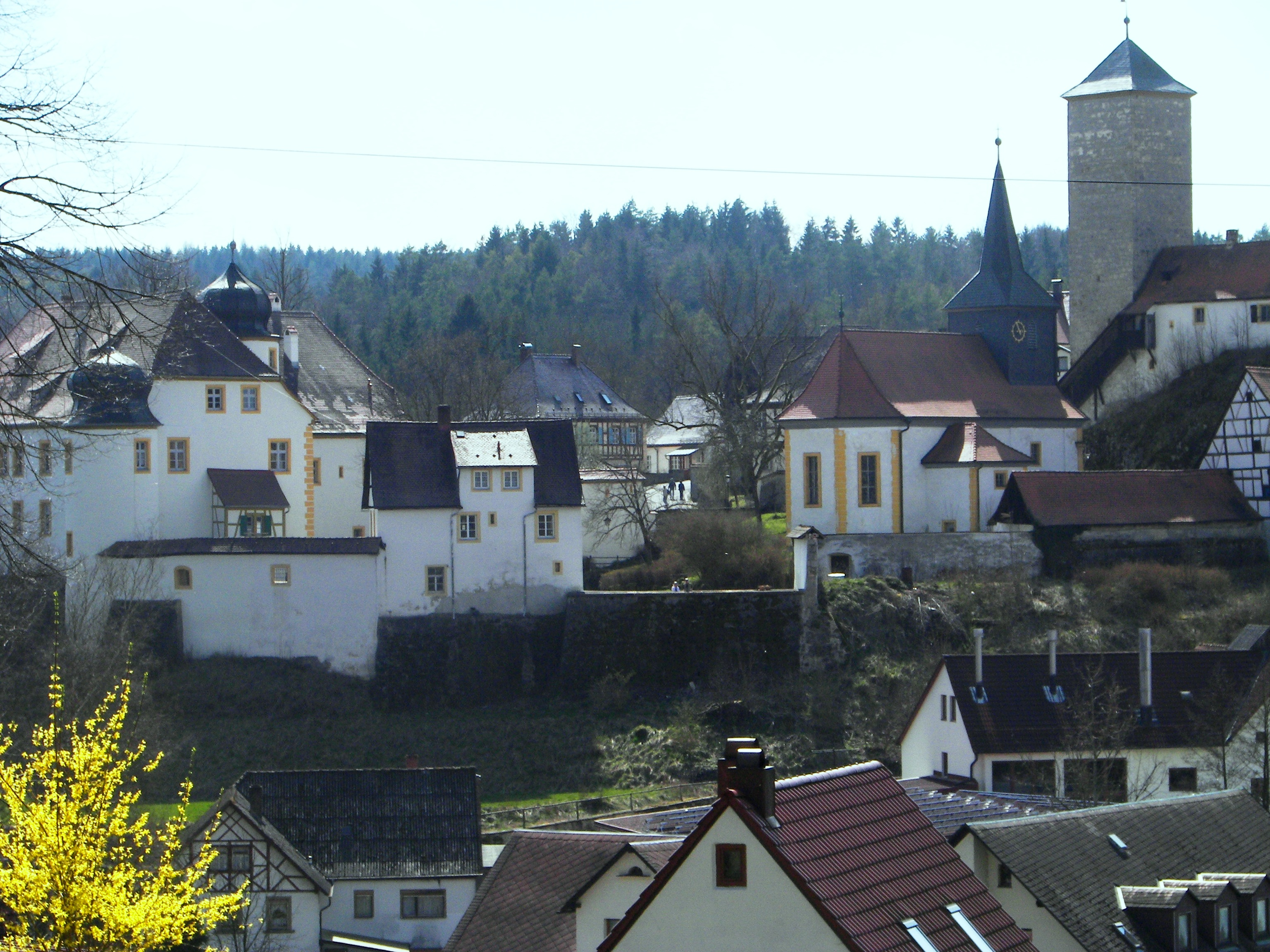 Castle and Church of Aufsess